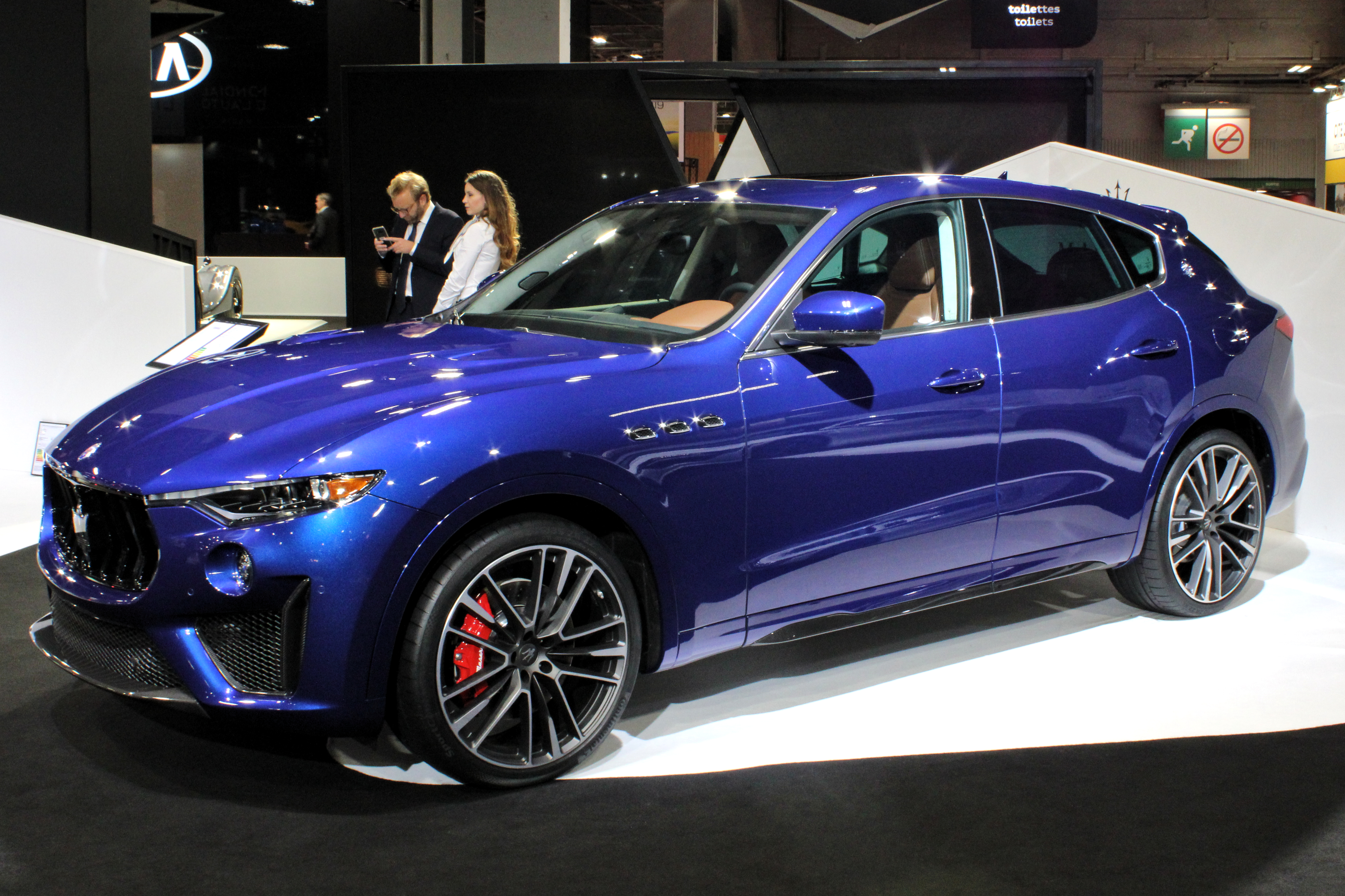 Maserati Levante Trofeo at Paris Motor Show 2018